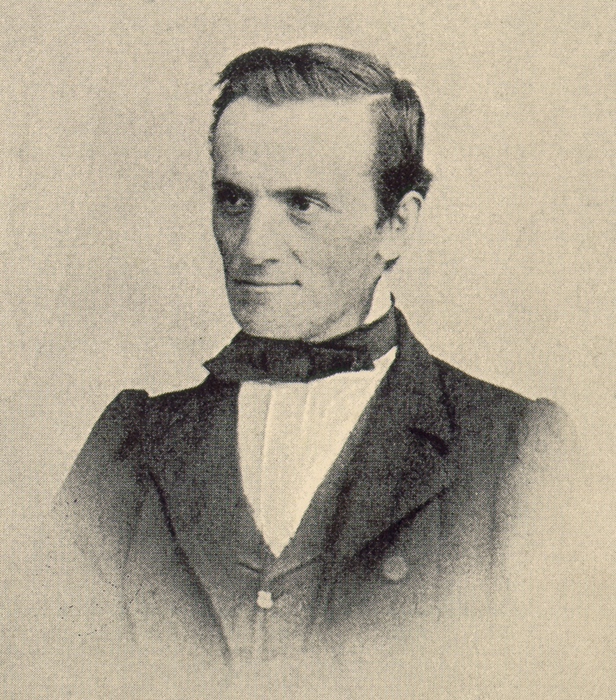 Anton Janežič (1828-1869), Slovenian philologist.